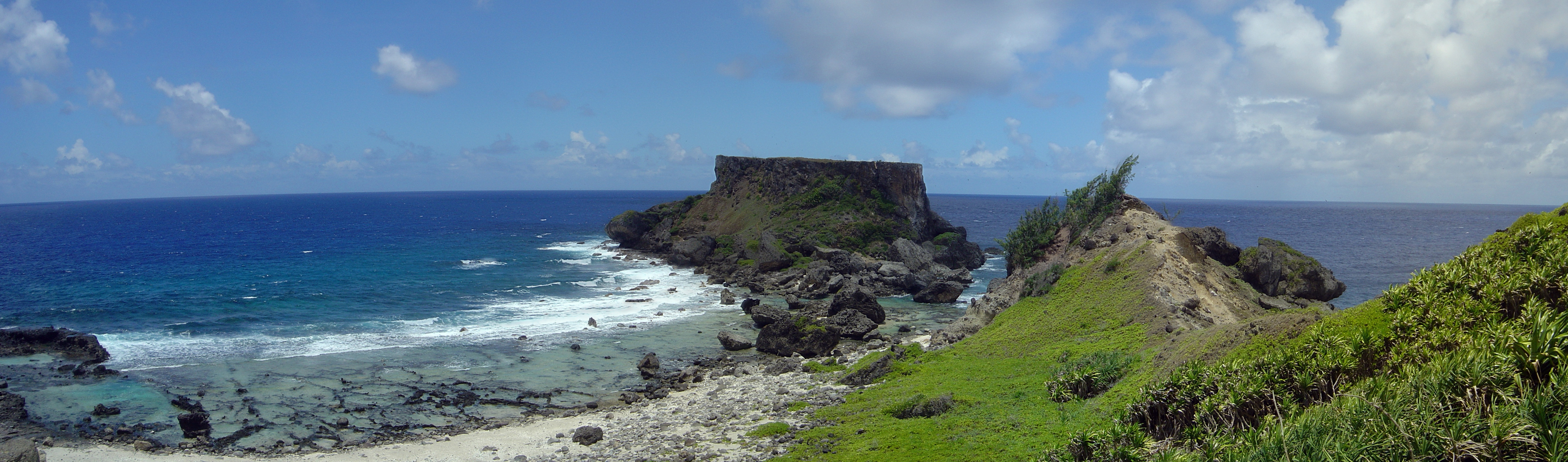 Forbidden Island, offshore from Saipan. Commonwealth of Northern Mariana Islands, Saipan.